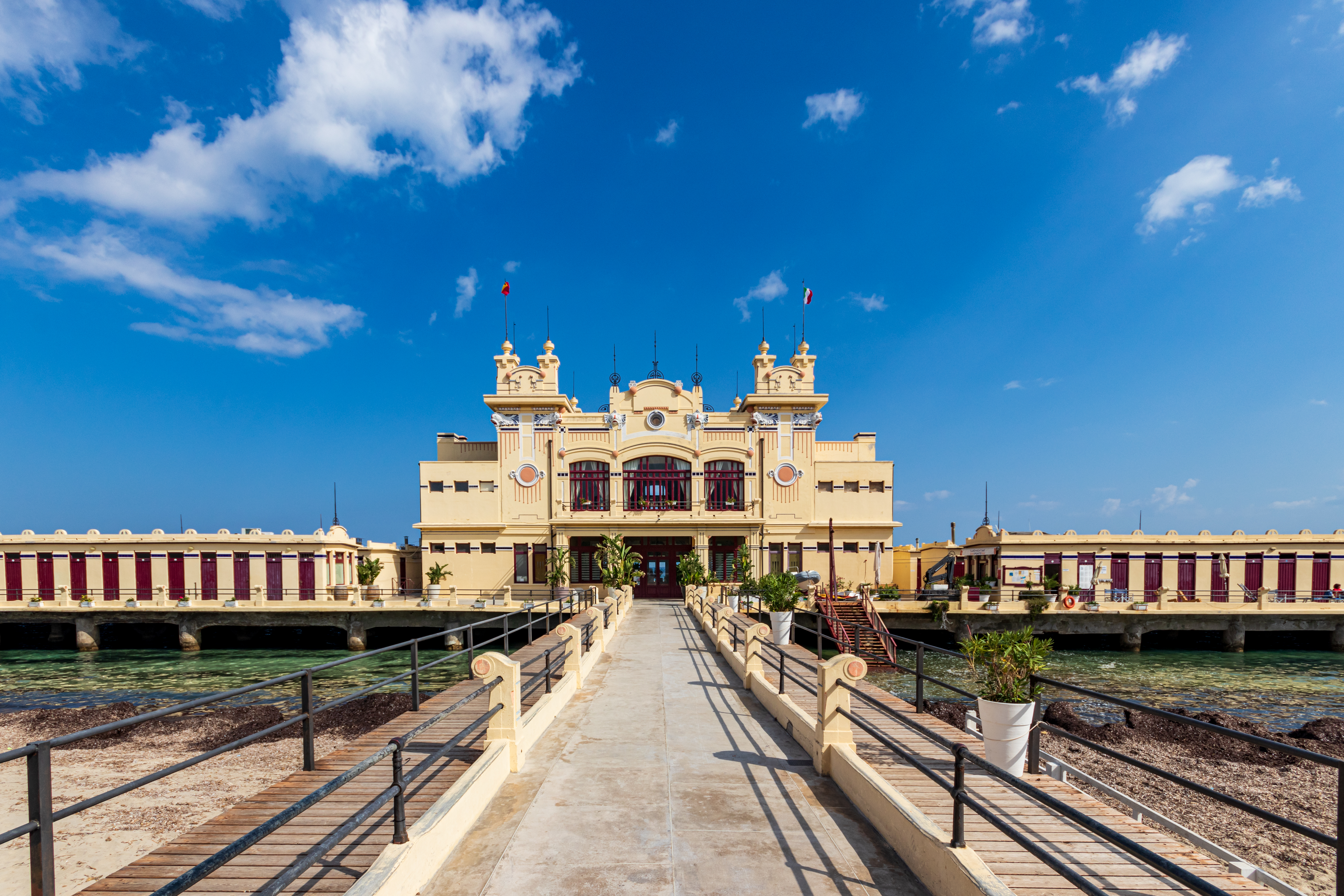 Alle Terrazze Mondello